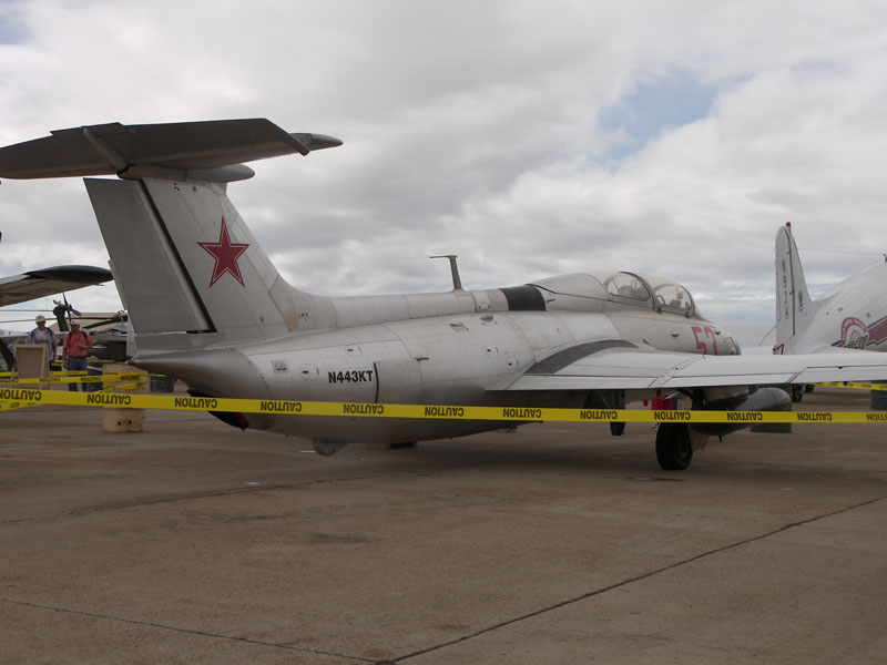 L-29 Delfín at the Miramar Air Show